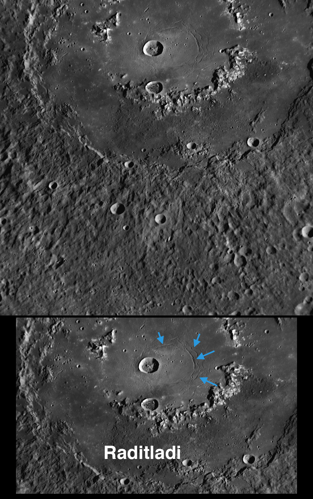 Date Acquired: January 14, 2008 Image Mission Elapsed Time (MET): 108826792 Instrument: Narrow Angle Camera (NAC) of the Mercury Dual Imaging System (MDIS) Resolution: 250 meters/pixel (0.16 miles/pixel) Scale: Raditladi basin has a diameter of 257 kilometers (160 miles) Spacecraft Altitude: 10,000 kilometers (6,200 miles) Of Interest: Raditladi basin, imaged during MESSENGER's first Mercury flyby and named in April 2008, is intriguing for several reasons. Shown extending across the top of this high-resolution NAC image, Raditladi basin is relatively young, with only a few small impact craters on the basin's floor and with well-preserved basin walls and peak-ring structure. Visible on the floor of Raditladi are concentric troughs (blue arrows), formed by extension (pulling apart) of the surface. However, extensional troughs on Mercury are quite rare, having been seen to date only in two other locations on the planet: as part of Pantheon Fossae and other troughs in Caloris basin and on the floor of Rembrandt, the large basin discovered during MESSENGER's second Mercury flyby. Understanding how these troughs formed in the young Raditladi basin could provide an important indicator of processes that acted relatively recently in Mercury’s geologic history. Raditladi basin was the topic of one of 25 presentations made by MESSENGER team members at the 40th Lunar and Planetary Science Conference held last week. Credit: NASA/Johns Hopkins University Applied Physics Laboratory/Carnegie Institution of Washington